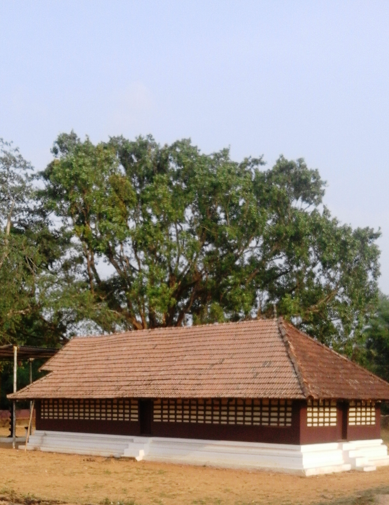 Mananthavady area, Wayanad district, Kerala, India.